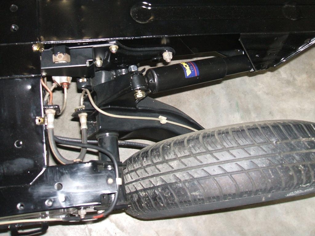 Rear suspension